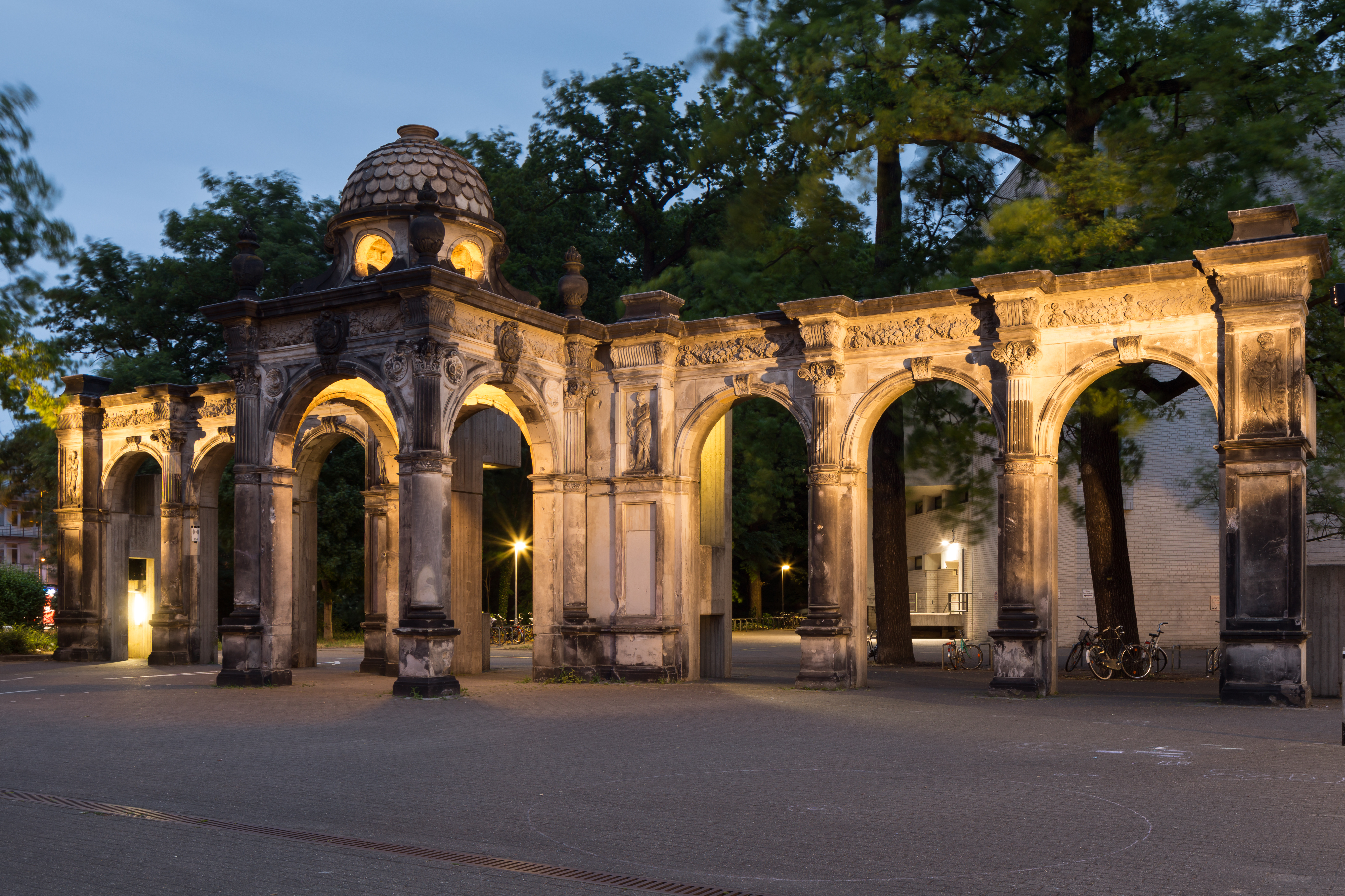 Ruins of "Neues Haus" (= new house) located in front of Hannover university of music at Emmichplatz in Zoo quarter of Hannover, Germany.